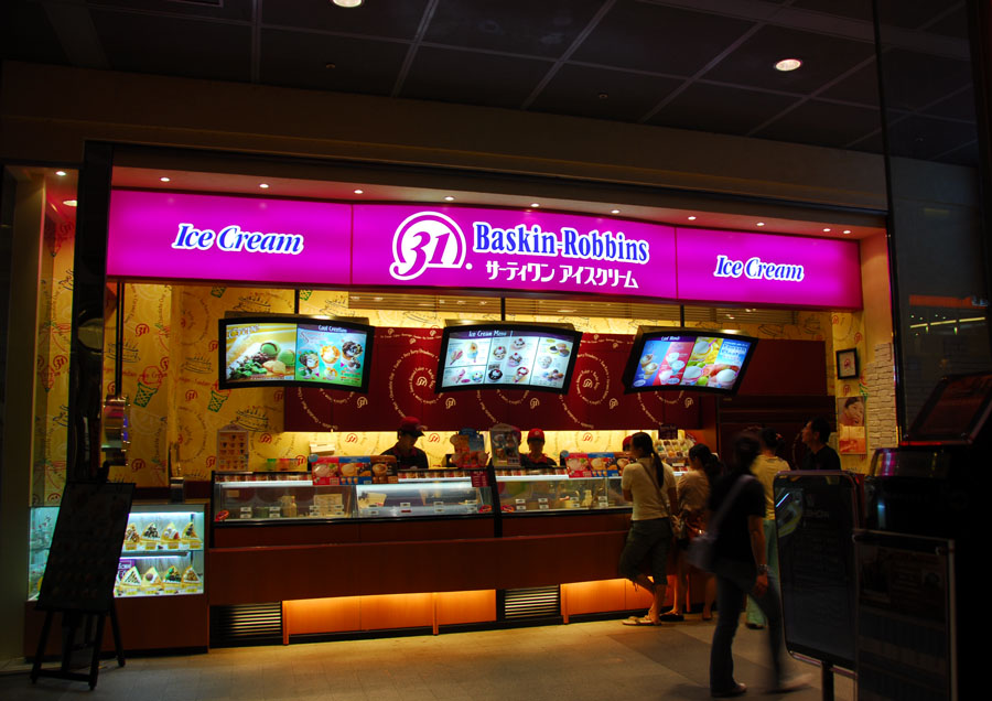 A Baskin-Robbins 31 Ice Cream store in Tiger City, Taichung, Taiwan. Notice the different logo design from the Baskin-Robbins in United States.